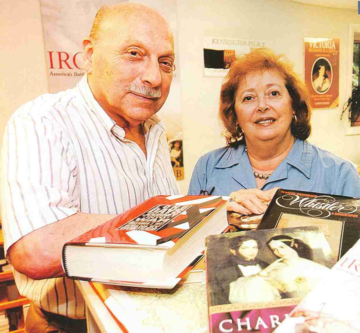 Professor Stanley Weintraub and Mrs. Rodelle Weintraub